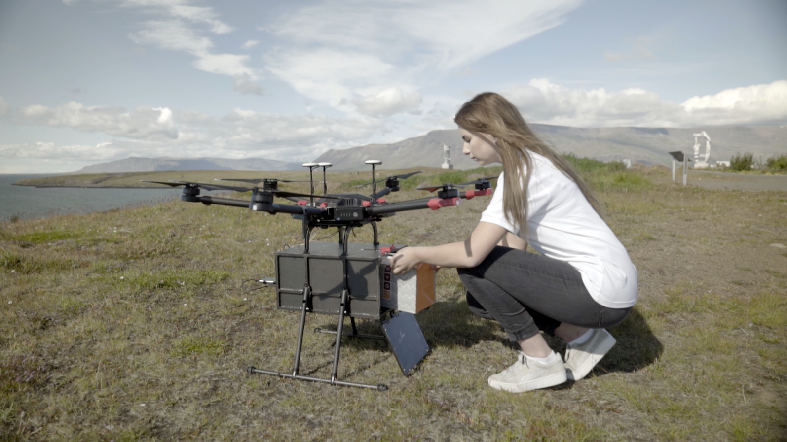 In 2017 drone delivery startup Flytrex deployed a commercial drone delivery route in Iceland's capital, Reykjavik.